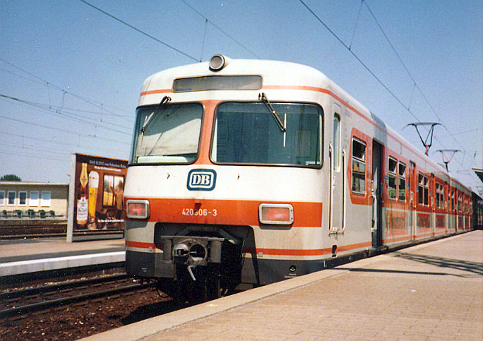 DB electric multiple unit 420 306 in Bietigheim-Bissingen.